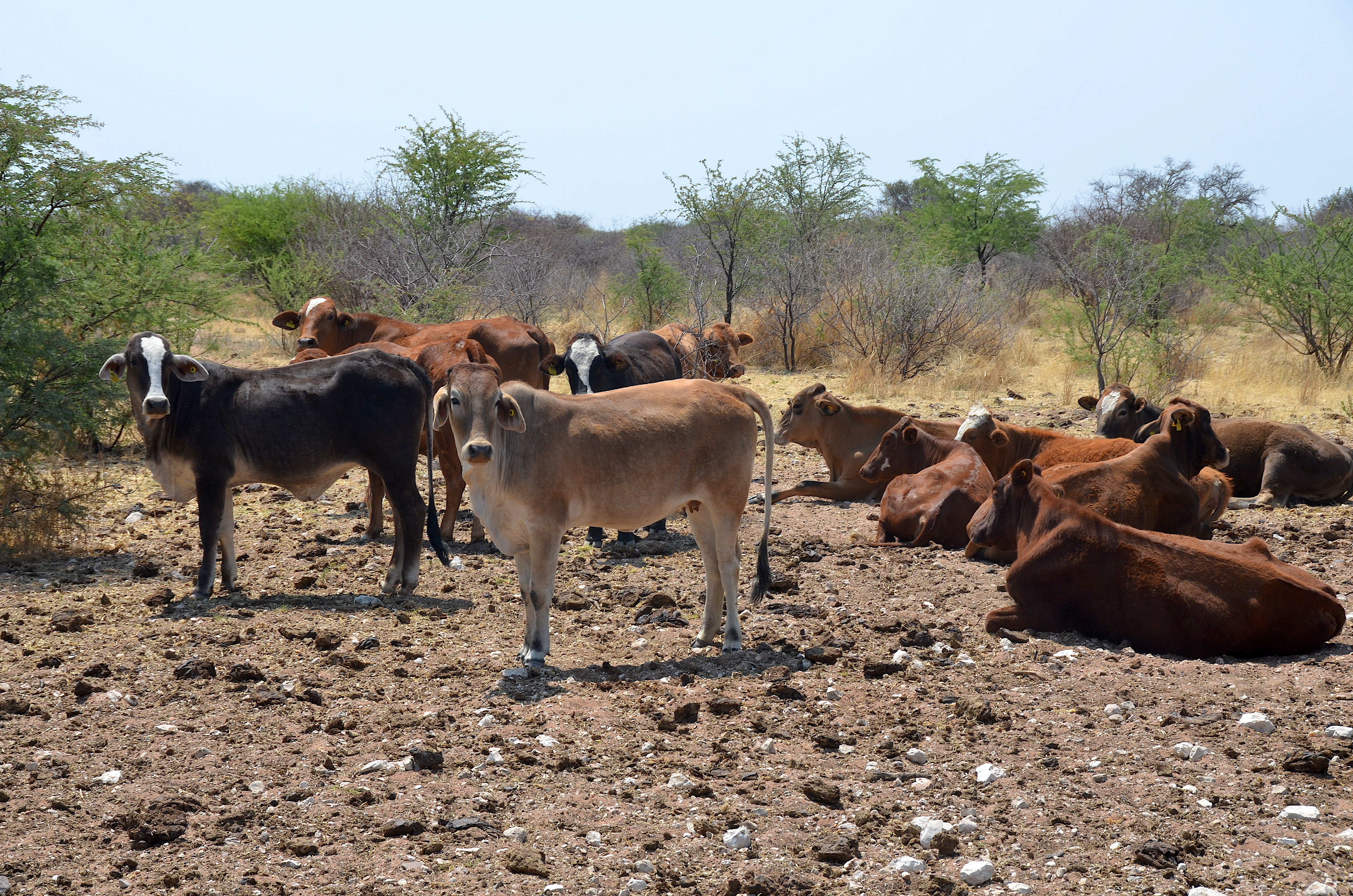 Cattle on Farm Grünental